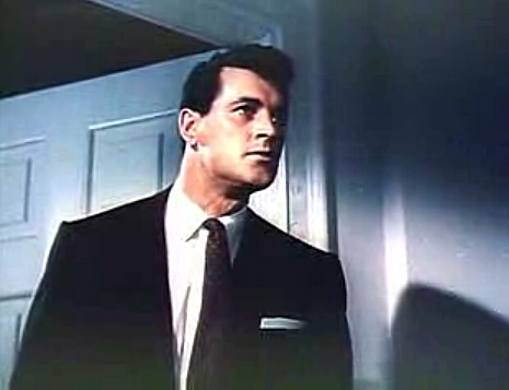 Screenshot of Rock Hudson from the trailer for the film Written on the Wind